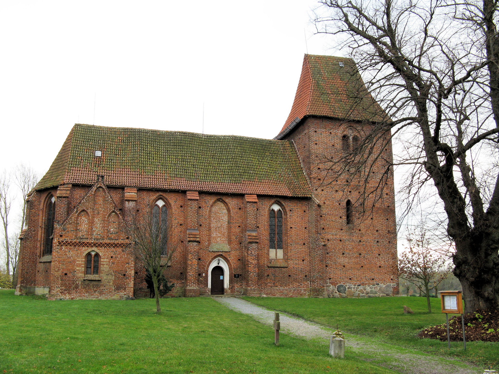 Church St. Laurentius in Hornstorf, Mecklenburg-Vorpommern, Germany